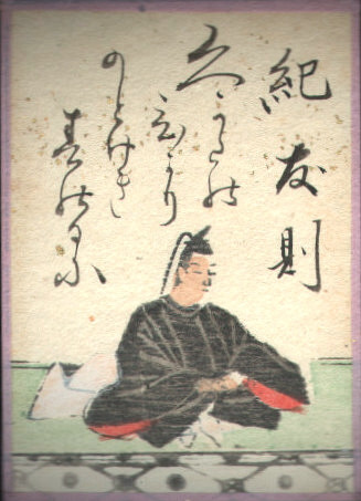 A portrait of Ki no Tomonori; illustration from an uta-garuta playing card for Hyakunin Isshu, created in the Edo period.